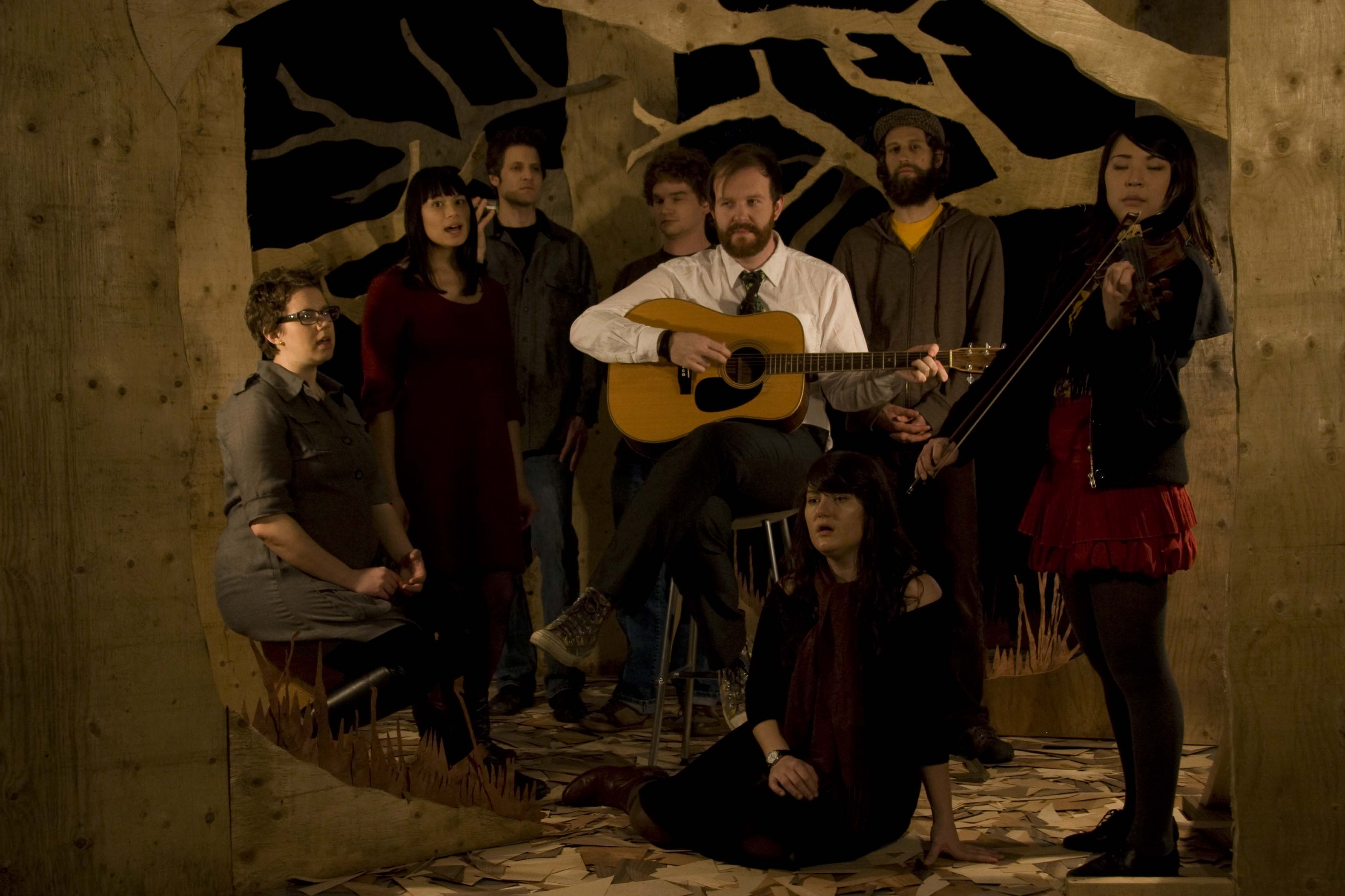 A photo of the Canadian band Woodpigeon